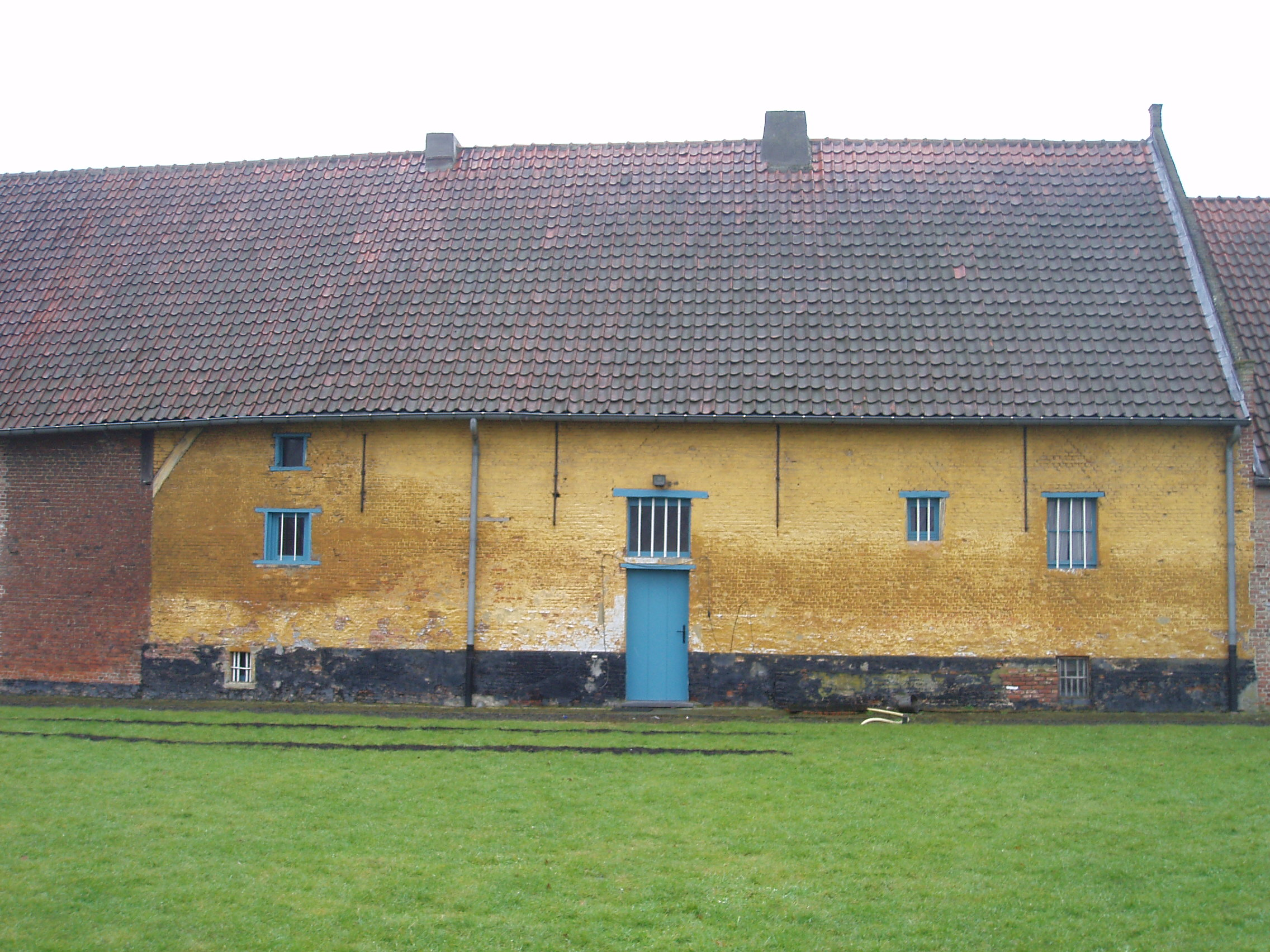 Sint-Katelijne-Waver Midzeelhoeve II back side